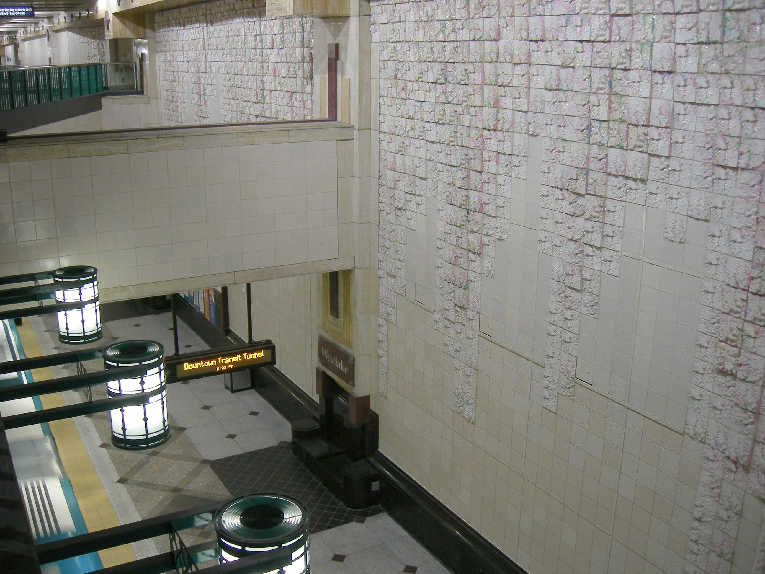 Westlake transit station, transit tunnel, Seattle, Washington, USA. From the mezzanine.